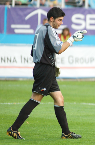 Josep Antonio Gómes, Andorran footballer, during the game Ukraine vs Andorra